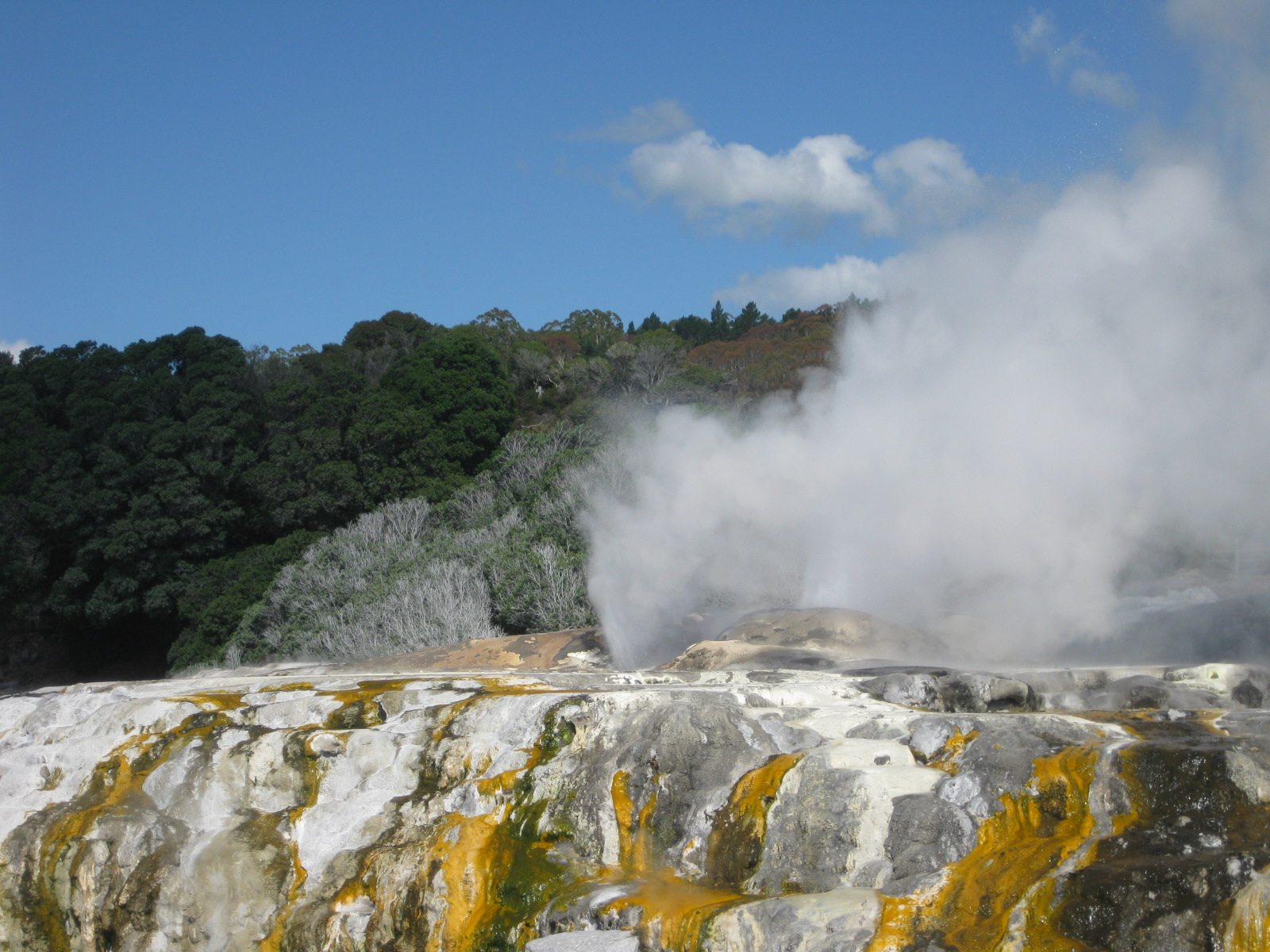 Prince of Wales Feathers and Pōhutu geysers erupting in Rotorua, New Zealand